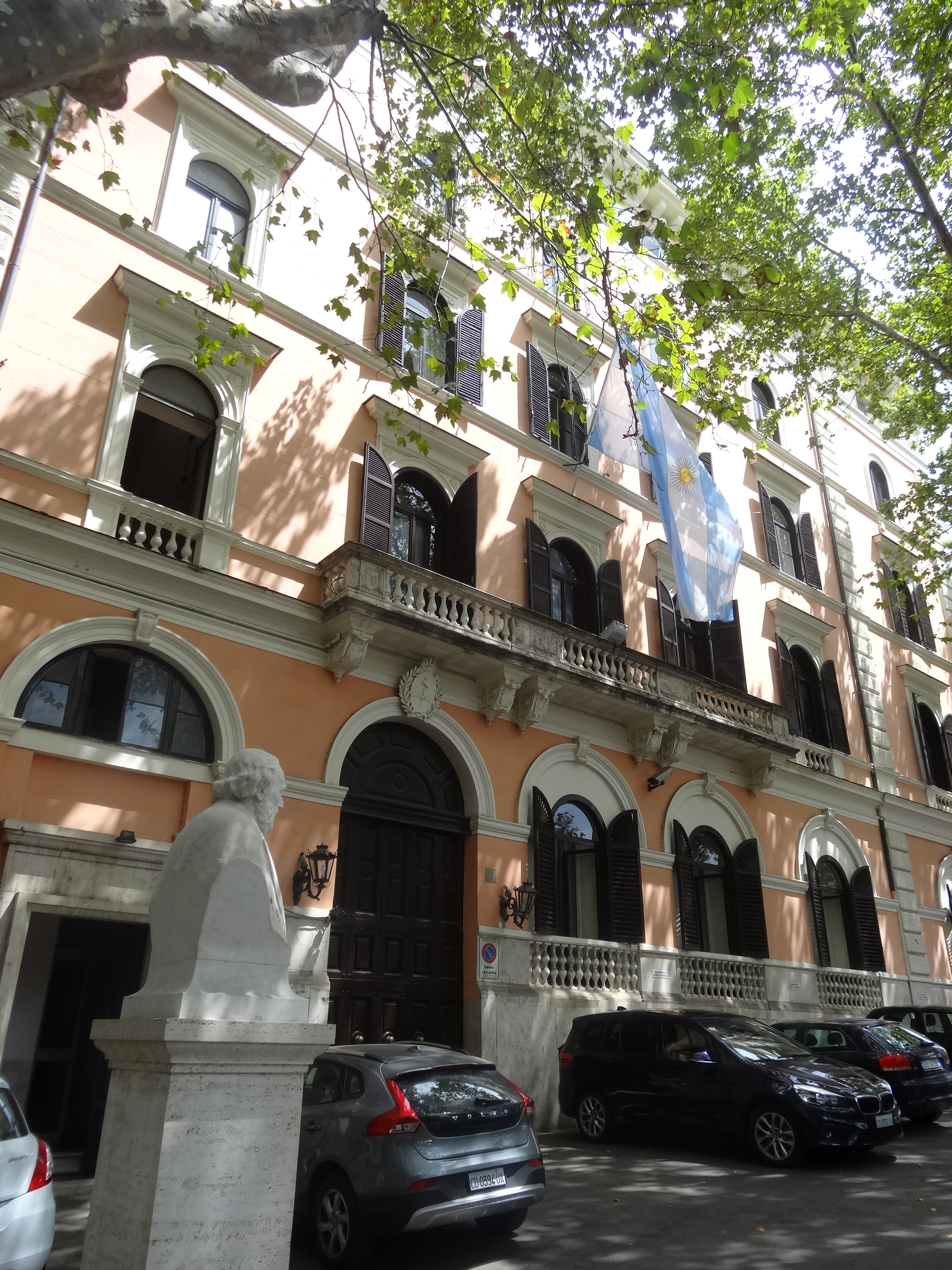 Busts of Bartolomè Mitre and Manuel Belgrano in piazza esquilino. In front of Embassy of Argentina to Italy